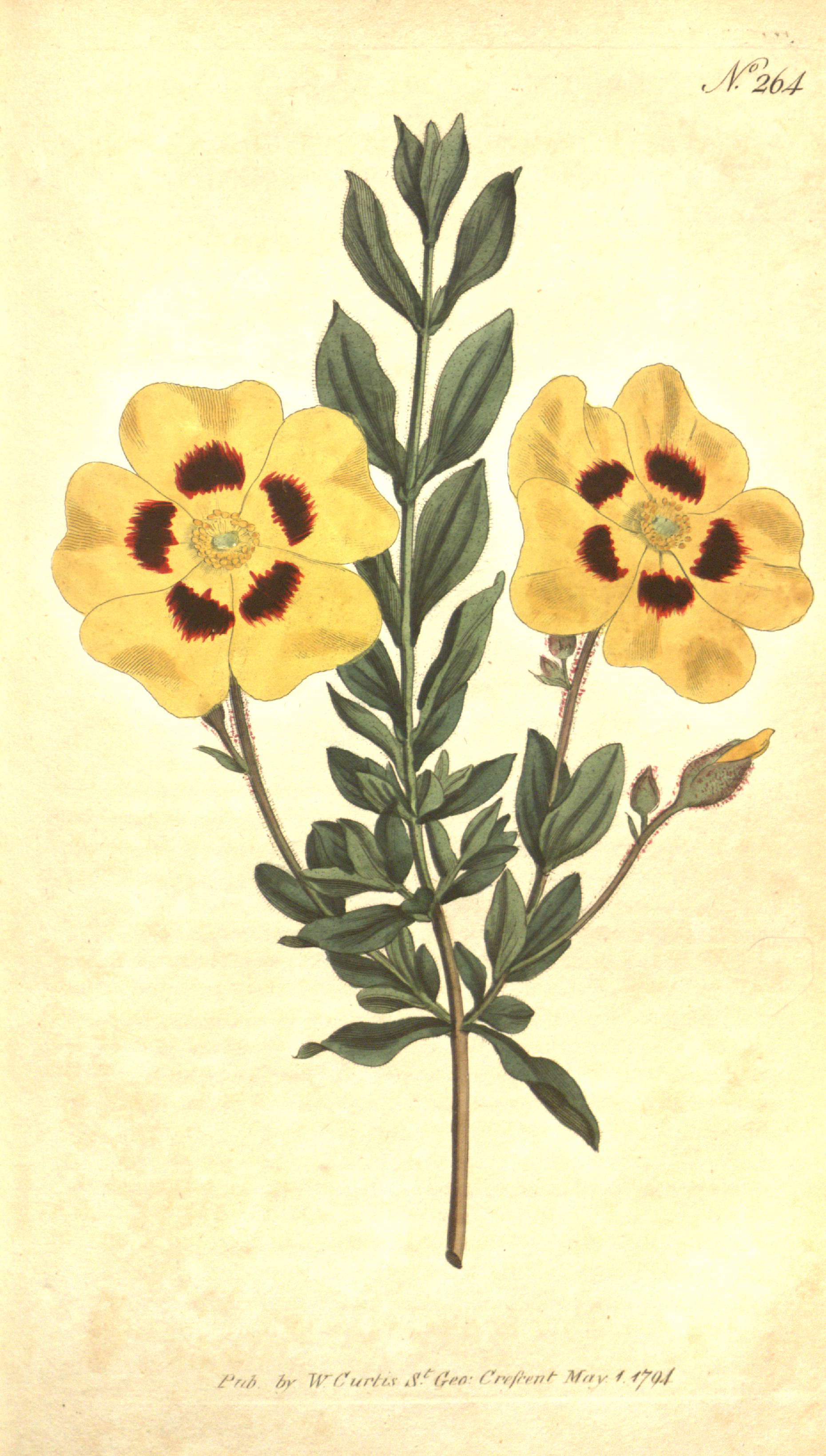 This is a plate from The Botanical Magazine, Volume 8.